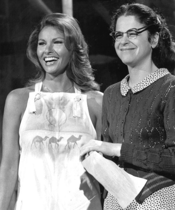 Publicity photo of Raquel Welch and Gilda Radner from Saturday Night Live rehearsal, April 24, 1976. Radner is shown as dressed as Emily Litella.